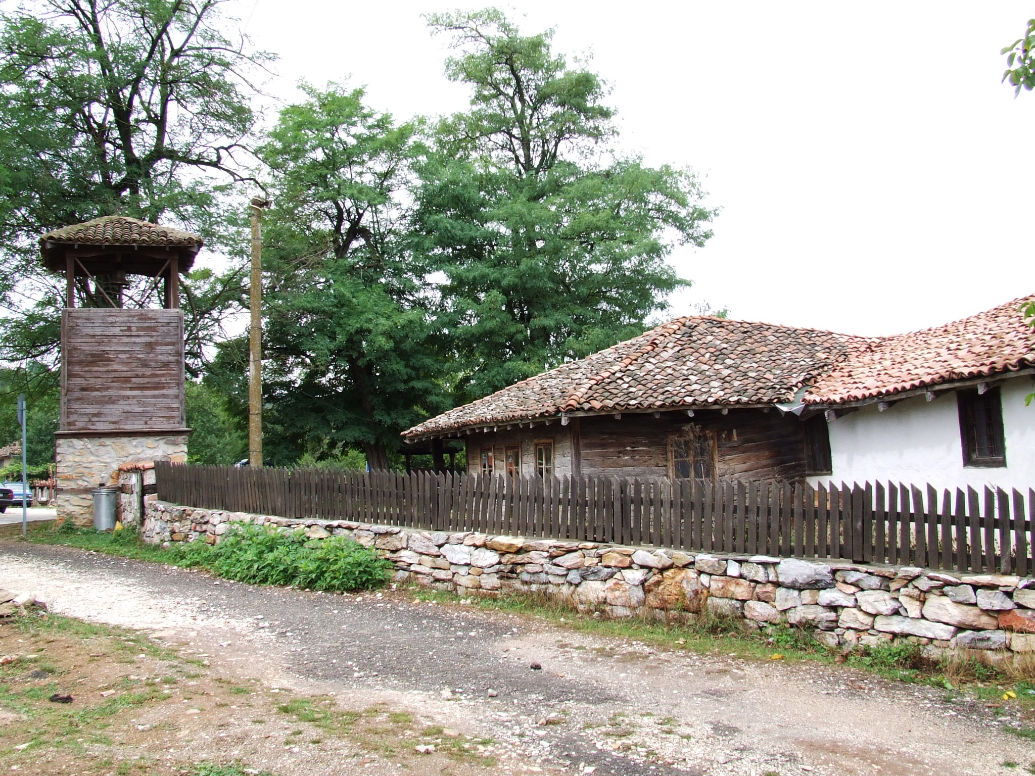 St Dimitar Church in the Bulgarian village of Brashlyan, Malko Tarnovo municipality